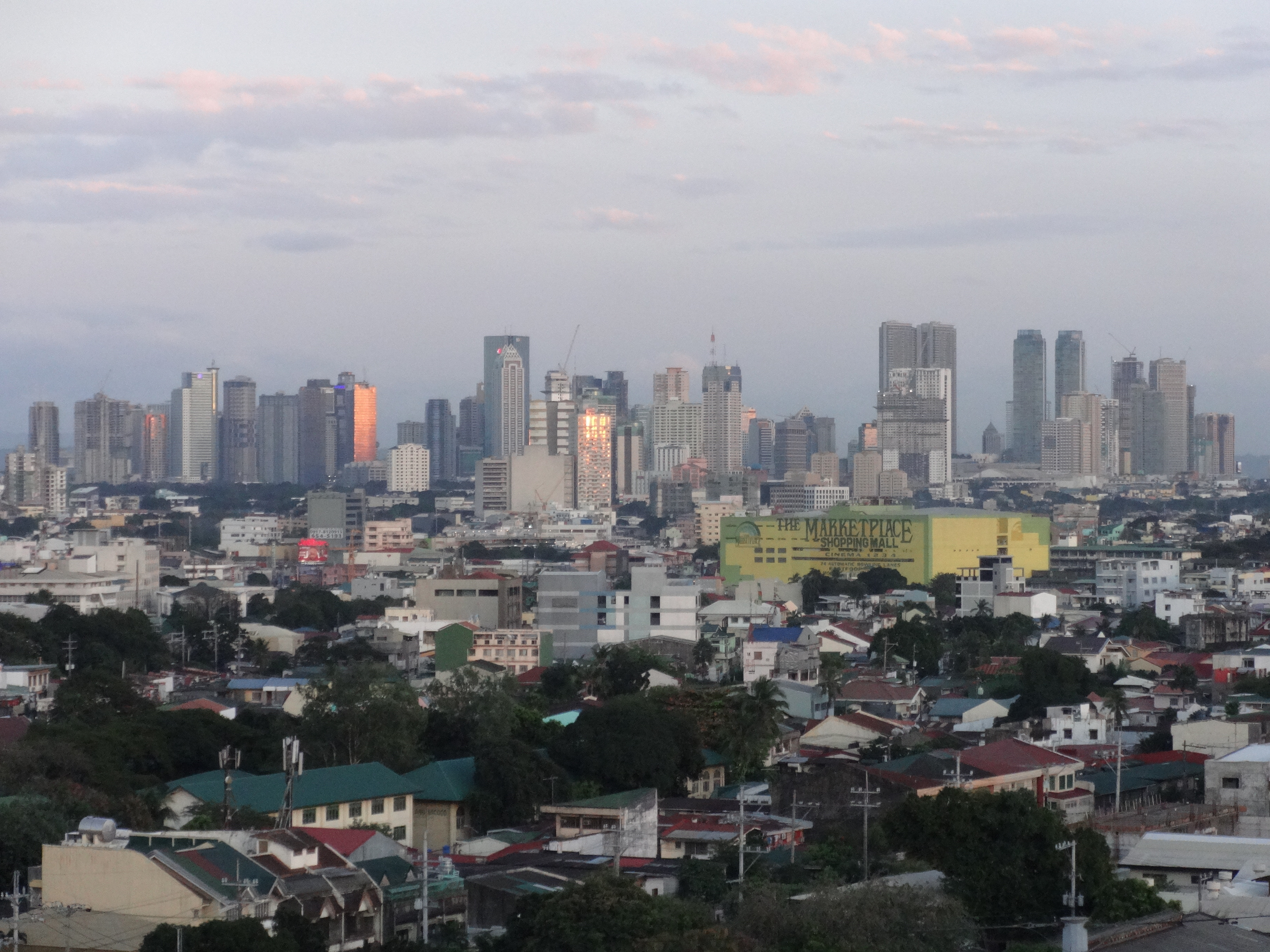 Ortigas Center skyline during sunset as seen from El Pueblo Condominium, Santa Mesa, Manila